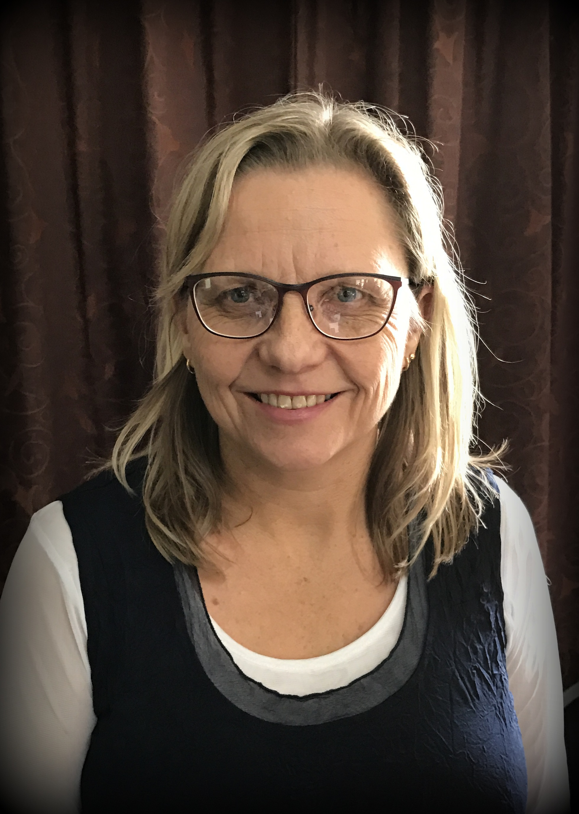 Tania Lineham Speaks at the New Zealand Skeptics Conference, Queenstown